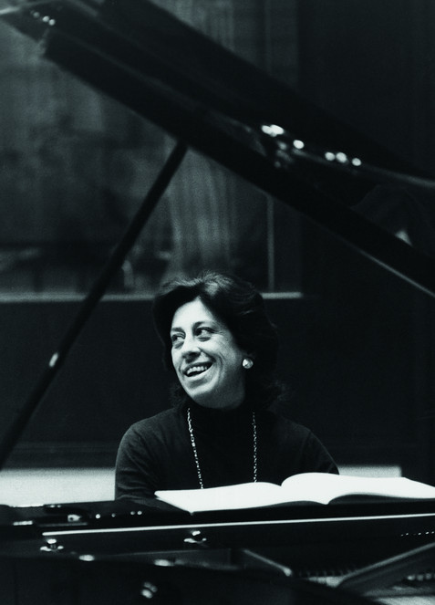 Uruguayan pianist Dinorah Varsi sitting at a piano with score before her, picture taken ca. 1985.